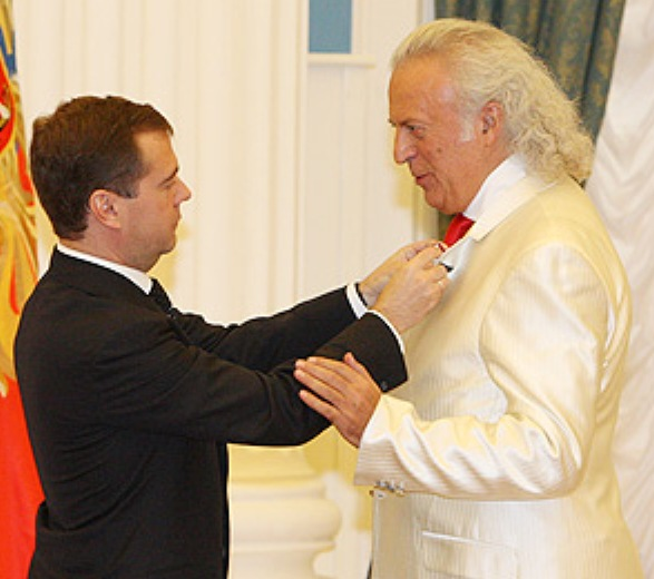 THE KREMLIN, MOSCOW. Ceremony presenting state decorations. The poet Ilya Reznik received the Order for Services to the Fatherland IV class.